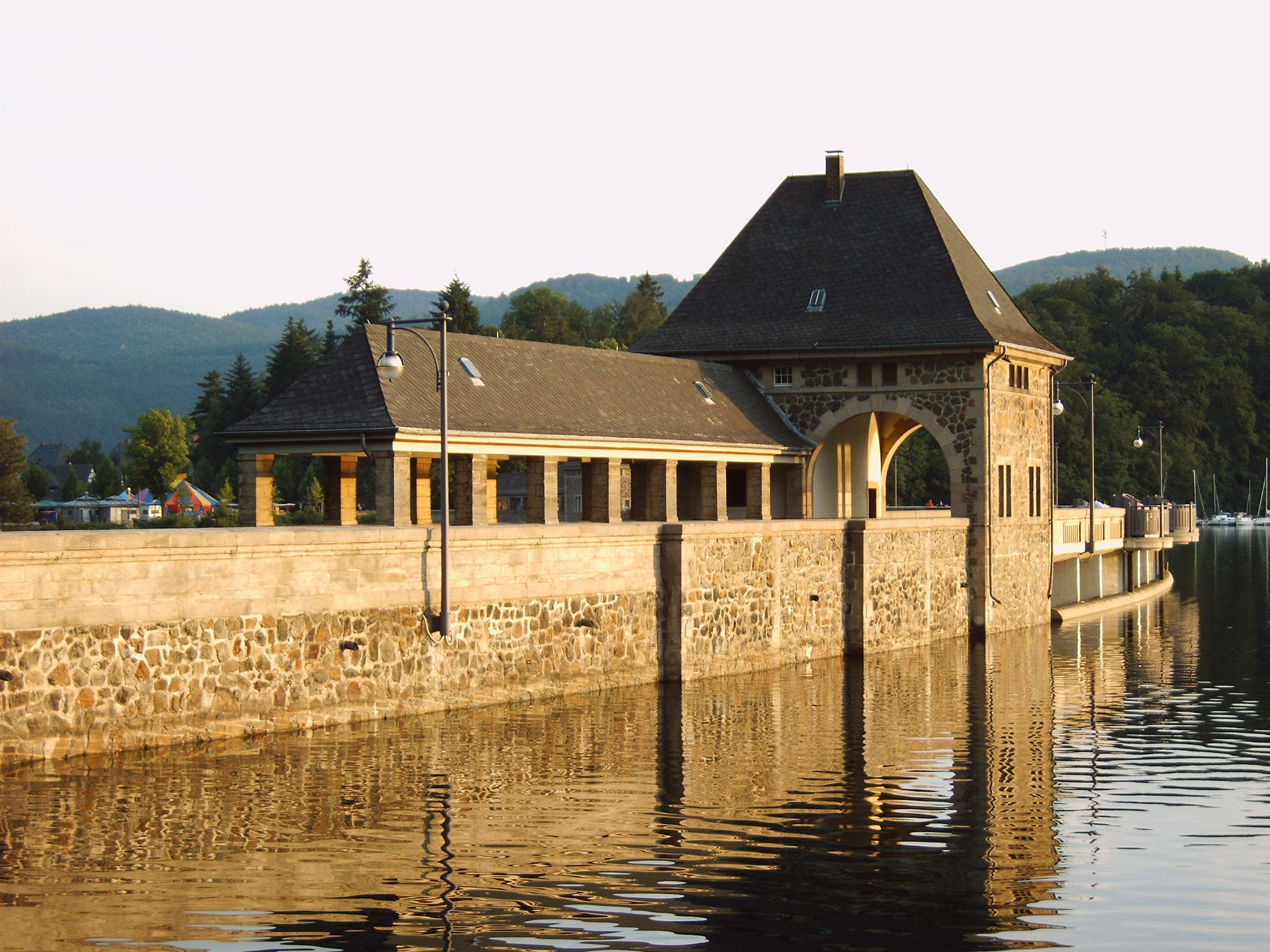 Northern side of the Edertalsperre